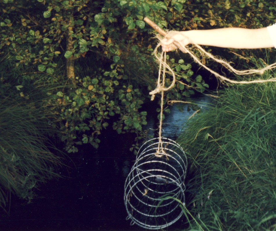 Crayfish trap placed in the river